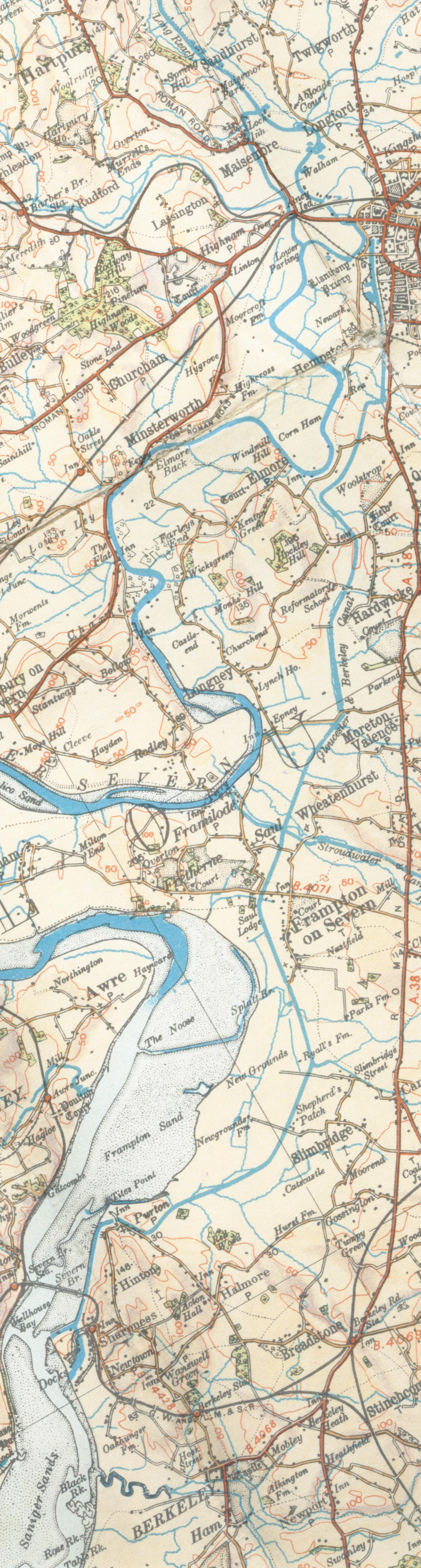 Stroudwater Navigation from 1933